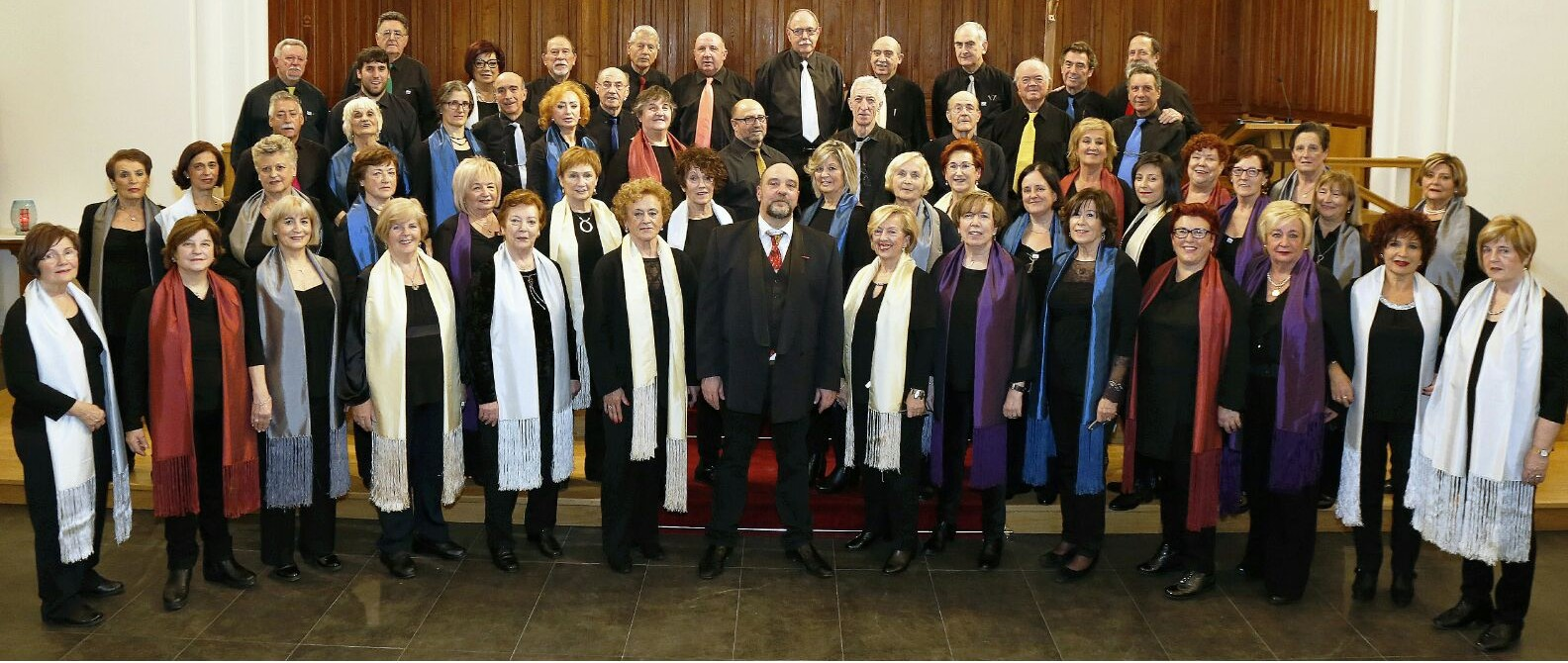 Choir Aita Donostia from Sant Sebastian